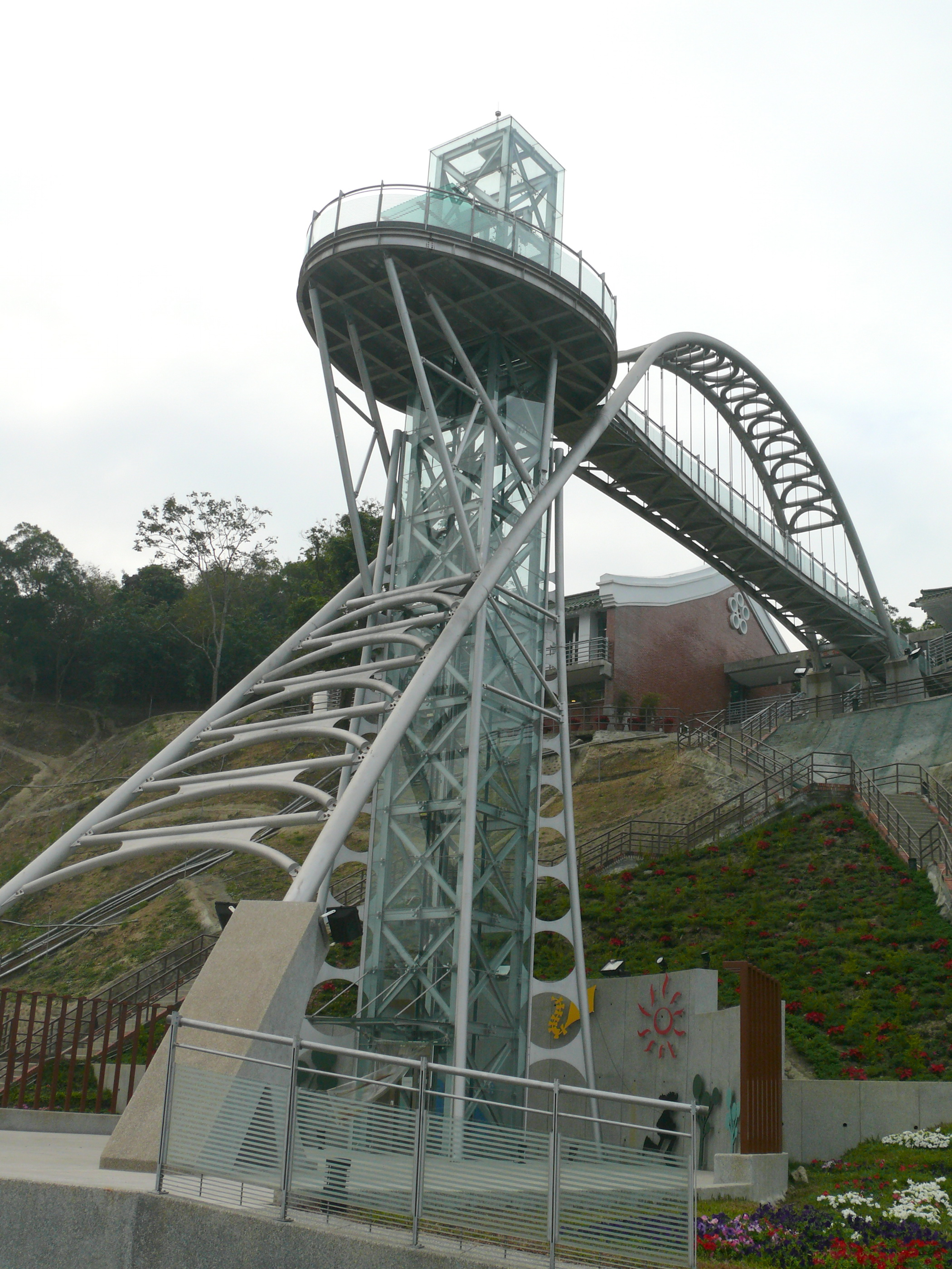 Jhongjheng Hall at the Tsengwen Reservoir, Chiayi, Taiwan.